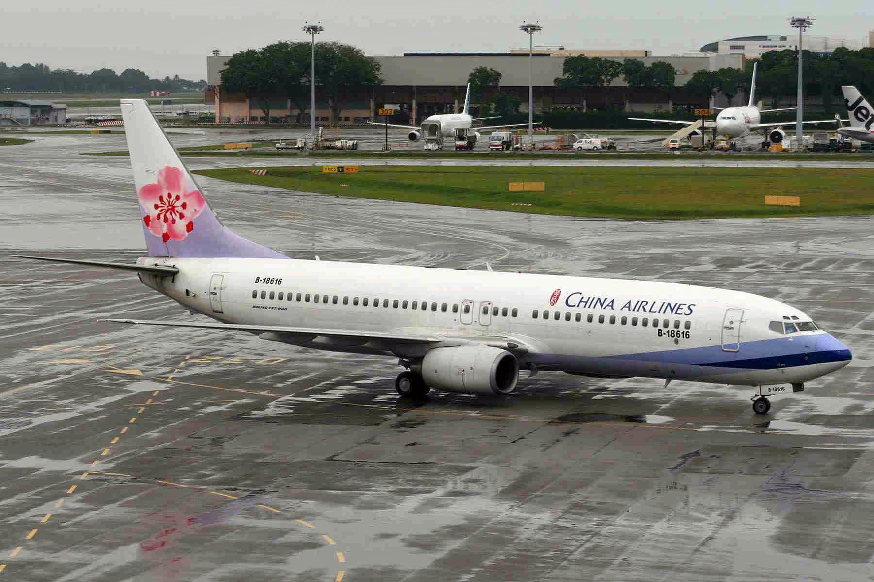 Destroyed in Okinawa in 2007 with no fatalities.